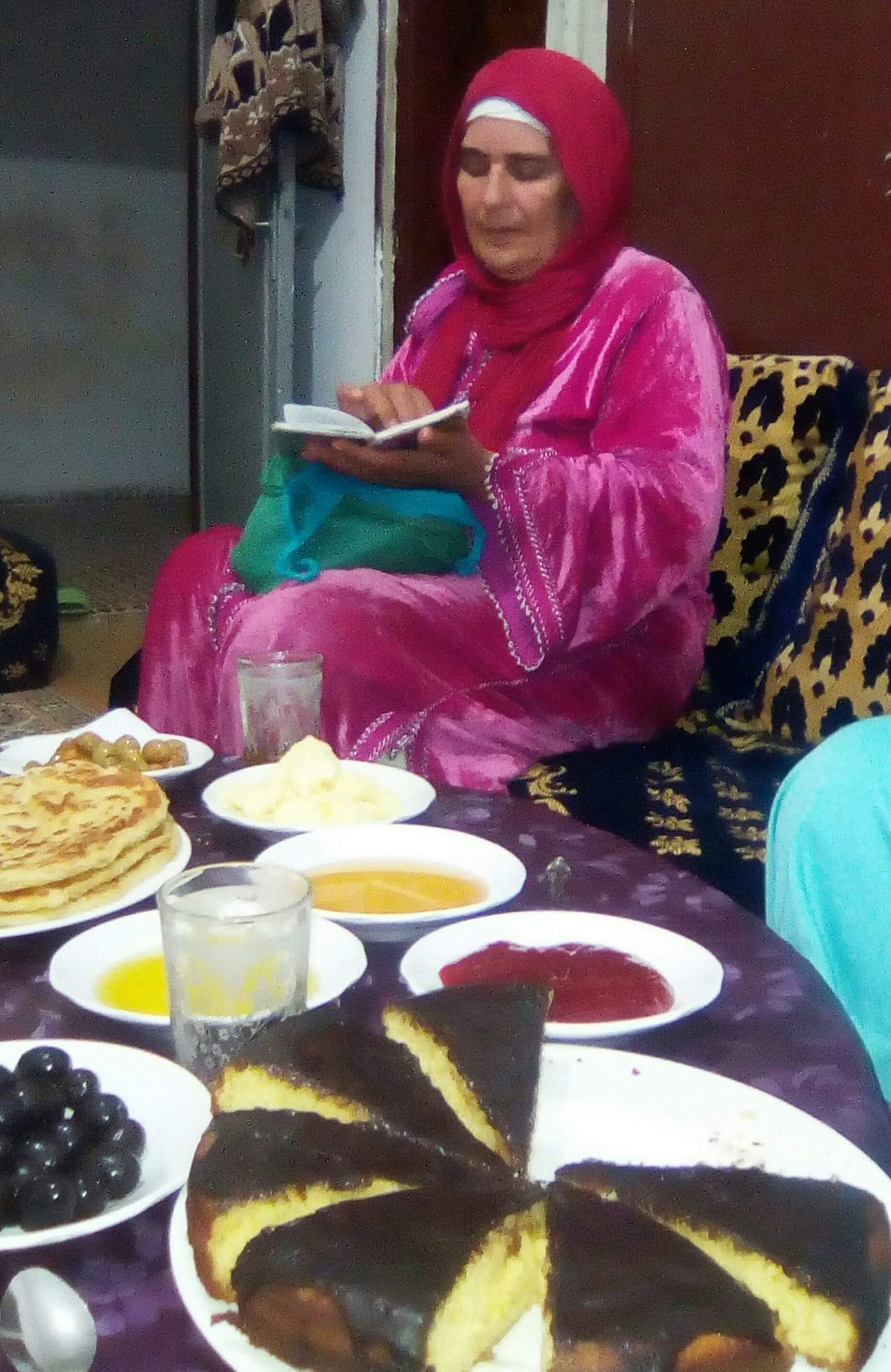 This is an image with the theme "Africa on the Move or Transport" from: Morocco